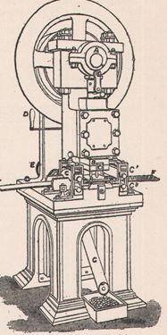 Image of a coining press used in mints. The blanks are converted into coin by receiving an impression from engraved dies. Each blank is placed on the lower of two dies and the upper die is brought down forcibly upon it. The pressure causes the soft metal to flow like a viscous solid, but its lateral escape is prevented by a collar which surrounds the blank while it is being struck. The collar may be plain, or crenated (" milled "), or engraved with some device. In the last case the collar must be made in two or more pieces, as otherwise the coin could not be removed without injury. The collar for striking English crown pieces is made in three sections now that raised lettering is put on the edge of the coin. Sunk letters, such as occur on the edges. The image shows the press in use at the Royal Mint since 1882. The lever M worked from the front of the machine causes the flywheel to be connected with the driving-wheel and the machine starts. The blanks are placed in the slide J and the lowest one is carried forward to the die in two successive movements of the "layer-on" K, a rod working backwards and forwards on a horizontal plate and actuating the finger L, fig. 8. The lower die is firmly fixed to the bed of the machine, and the blank is placed exactly upon it. The collar A' is then raised by the lever G so as to encircle the blank, and the upper die which is held at A is brought down. This is done by the little crank B on the axle of the fly-wheel, acting through the rod C, and the bent lever D, which forms a toggle-joint at E with the vertical piece of metal below it. The straightening of the togglejoint when C is pushed forward forces A down to strike the coin. The reverse movement of D lifts up the upper die and the collar drops simultaneously so that its upper surface is level with the face of the lower die on which the finished coin lies. Another blank moved on by the finger L pushes off the finished coin which falls down the tube N.